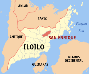 Map of Iloilo showing the location of San Enrique